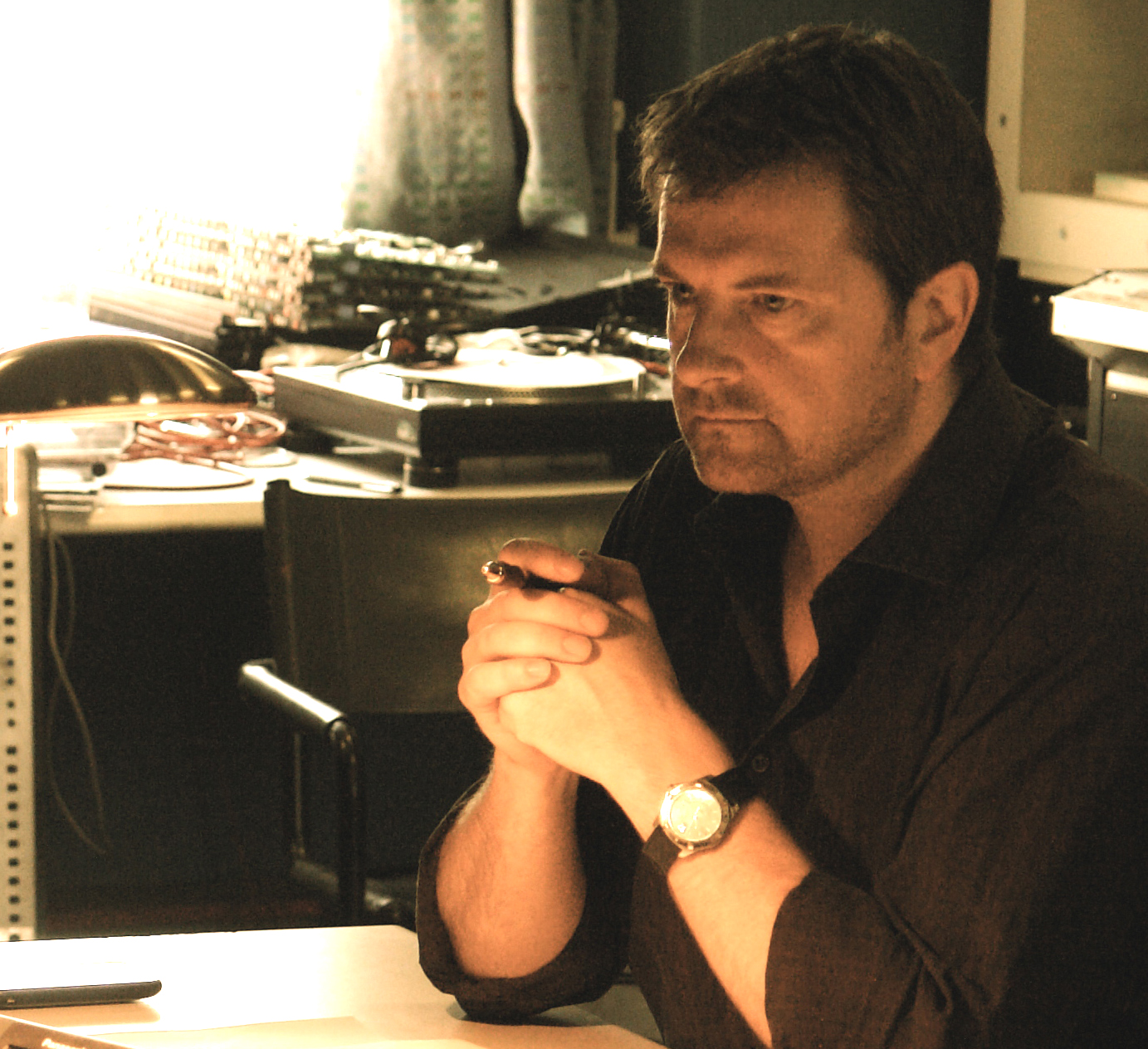 David Poore at a session in Christchurch recording studios in Bristol.